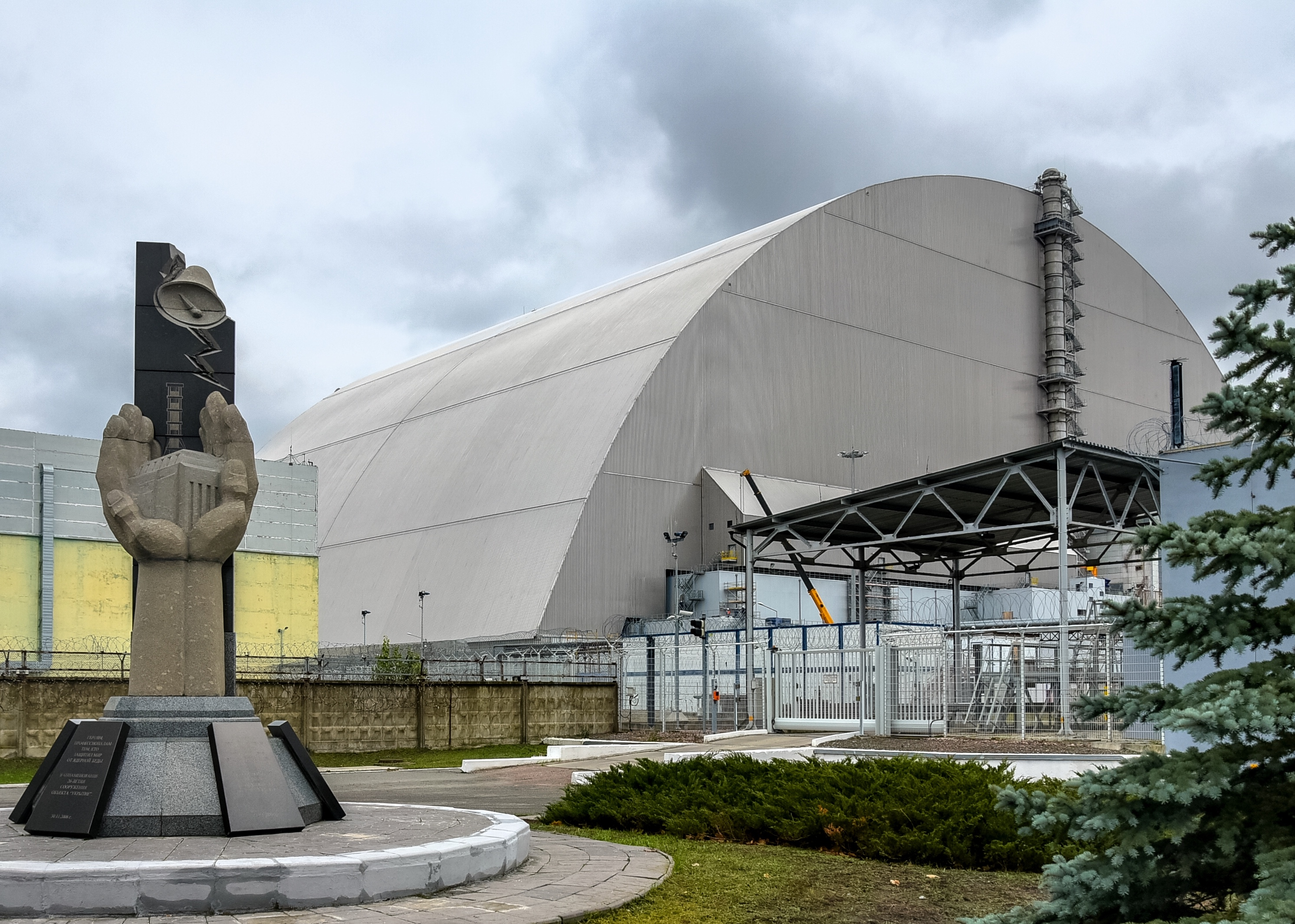 Chernobyl (Ukraine)